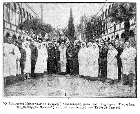 Red cross staff at Smirni, 1920